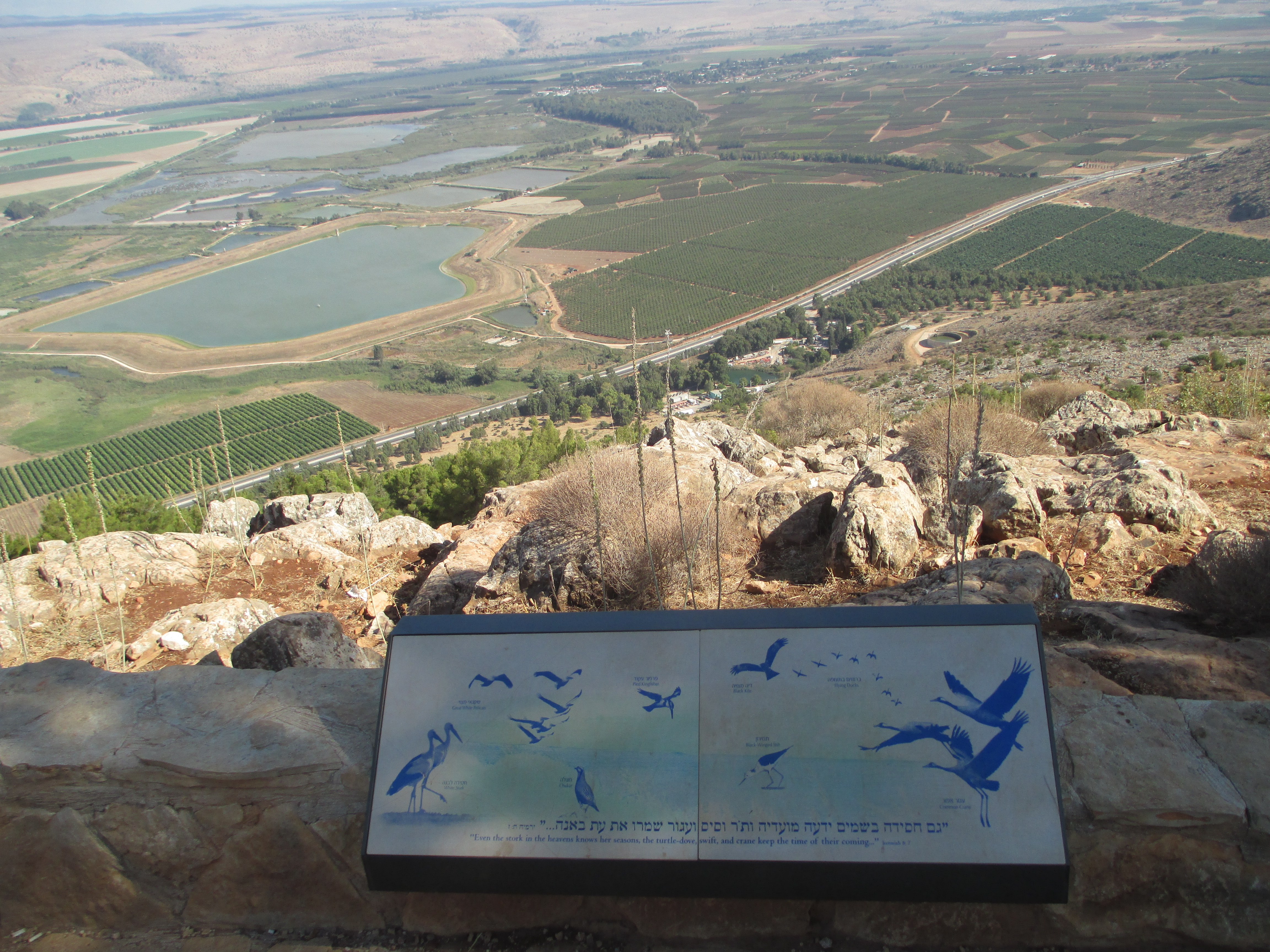 Keren Naftali lookout